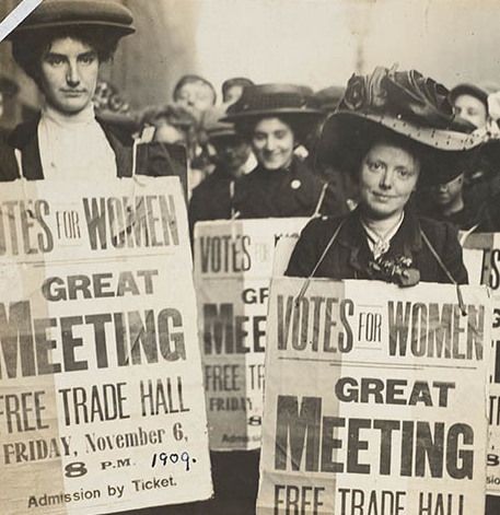 Helen Ogston and Mary Gawthorpe - maker unknown - source says 1909 but suspect its 1906